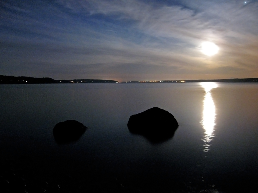 Saratoga Passage, from the shore of Camano Island, looking southwest. Whidbey Island is the land on the right. The southern end of Camano Island is on the left. The lights in the distance are probably Everett. Original file at